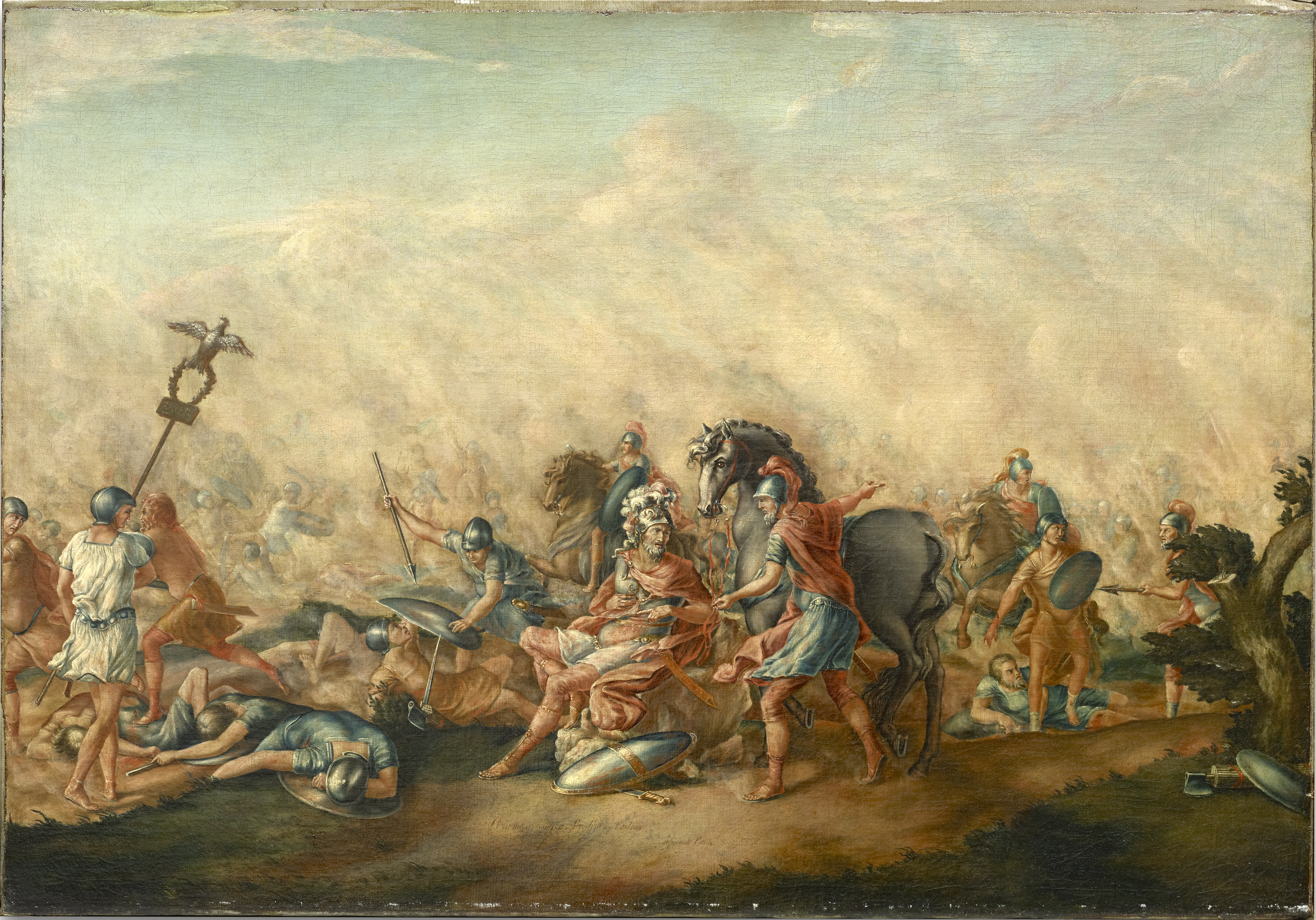 The Death of Paulus Aemilius at the Battle of Cannae Photo credit: Yale University Art Gallery